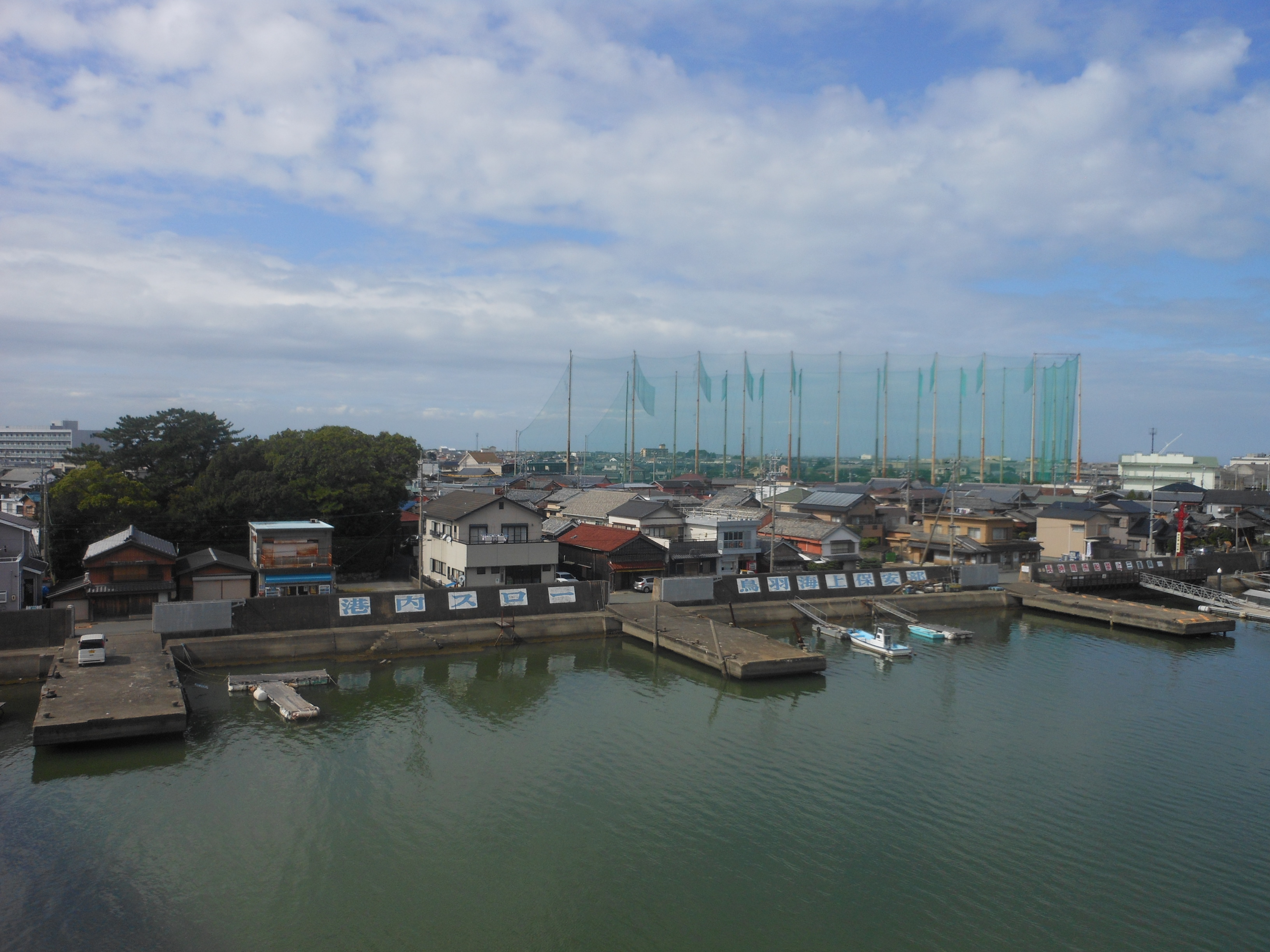 This is a photo of Ujiyamada port (Kamiyashiro area) in Mie, Japan.